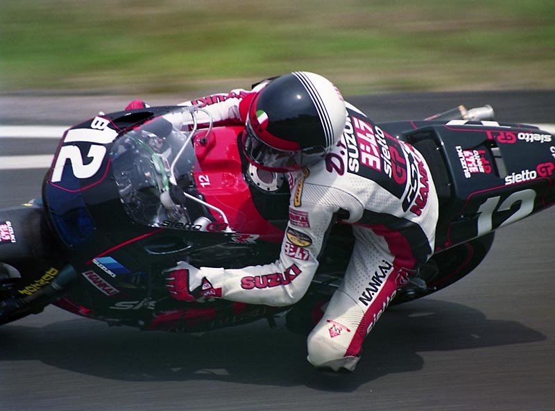 Doug Polen at 1993 Suzuka 8hours